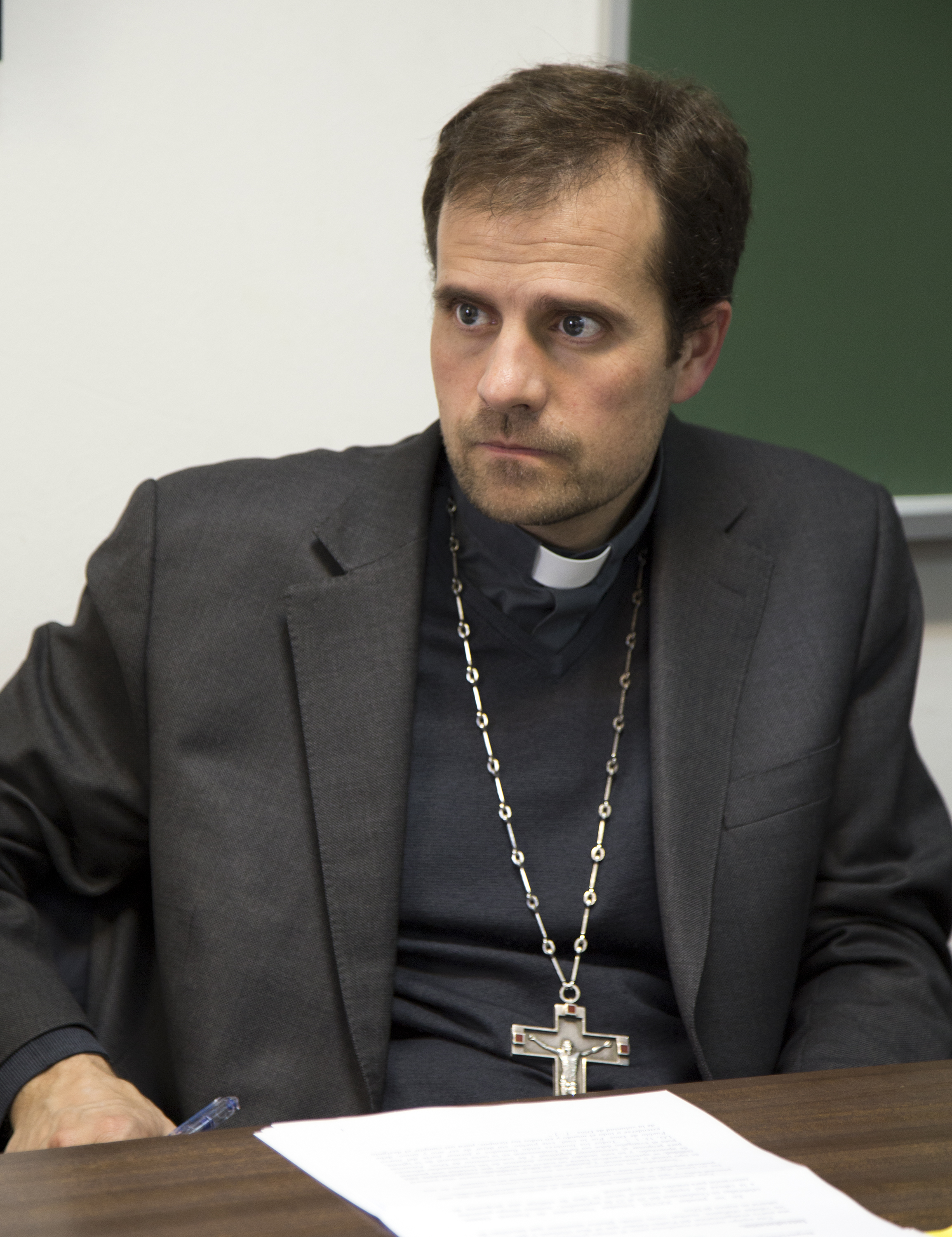 Xavier Novell i Gomà, Spanish bishop.